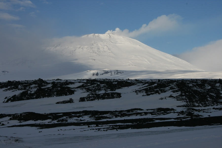 Mount Erebus, Ross Island, Antarctica